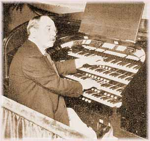 Edwin Lemare, organist (1966-1934). A version of this image was published on page 78 in the August 20, 1921 Exhibitors Herald, with a caption implying that it was taken at the dedication of the Robert-Morton orchestral pipe organ at the University of Southern California.